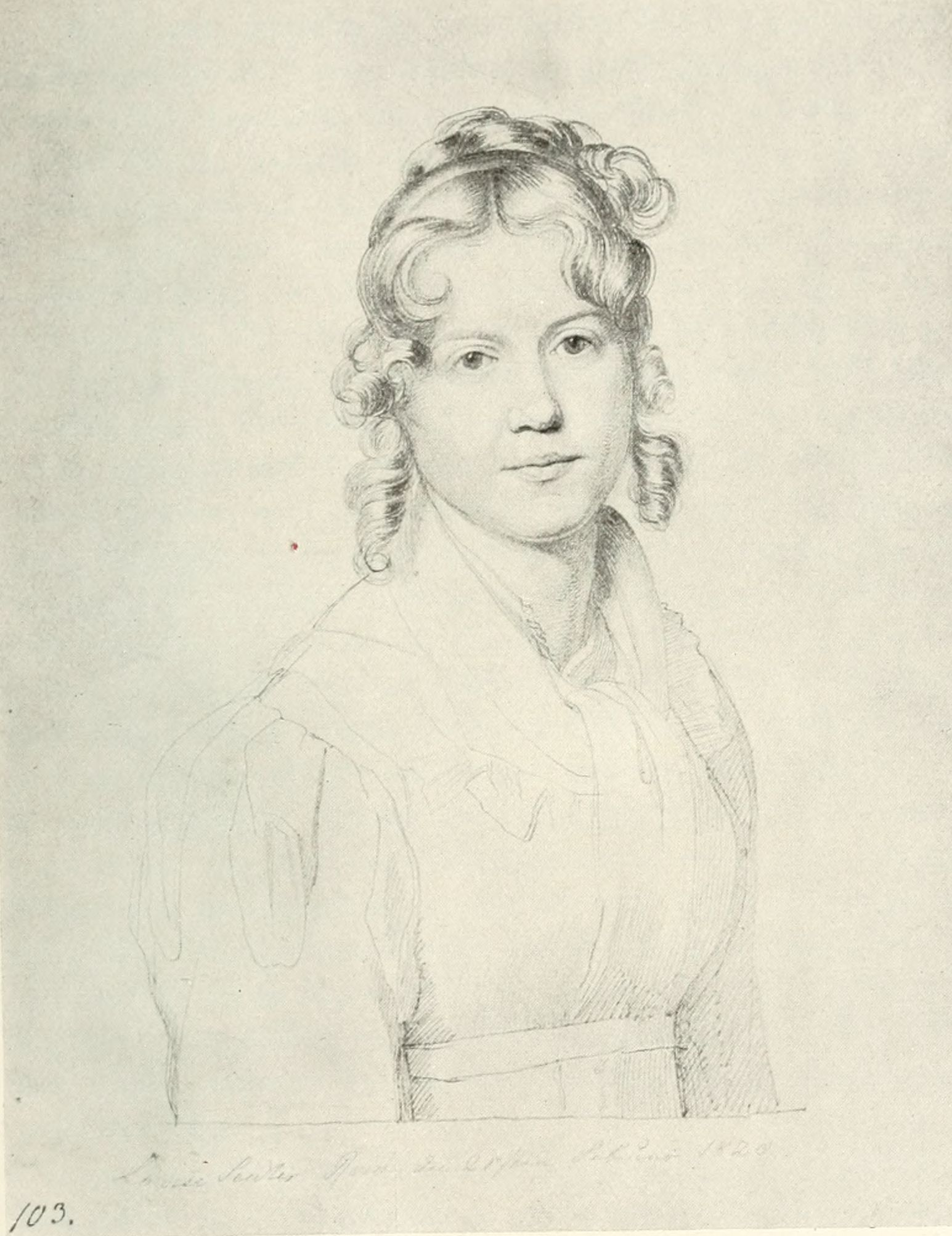 Painter Louise Seidler (1786 – 1866) by Vogel von Vogelstein.